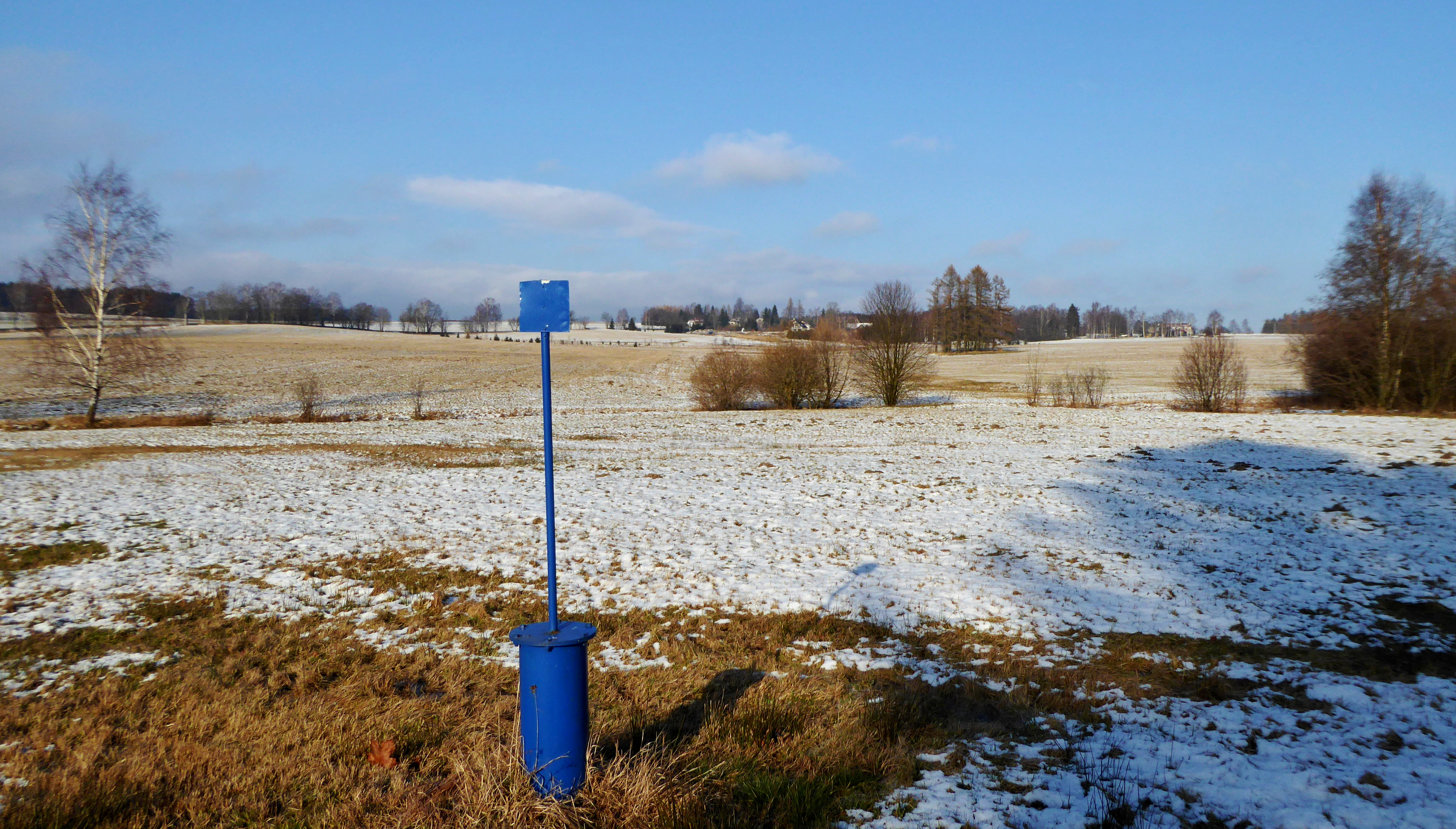 The springs area of "Chrudimka" river, the locality of confluence of watercourses at altitude 634 m near the settlement locality Filipov, the cadastral territory of the municipality of "Kameničky". The territory is part of a European important locality named Valley of "Chrudimka". Photo locality: Czechia, Pardubice Region, municipality Kameničky, "Kameničská" Highlands, site of confluence of water sources of the river "Chrudimka".